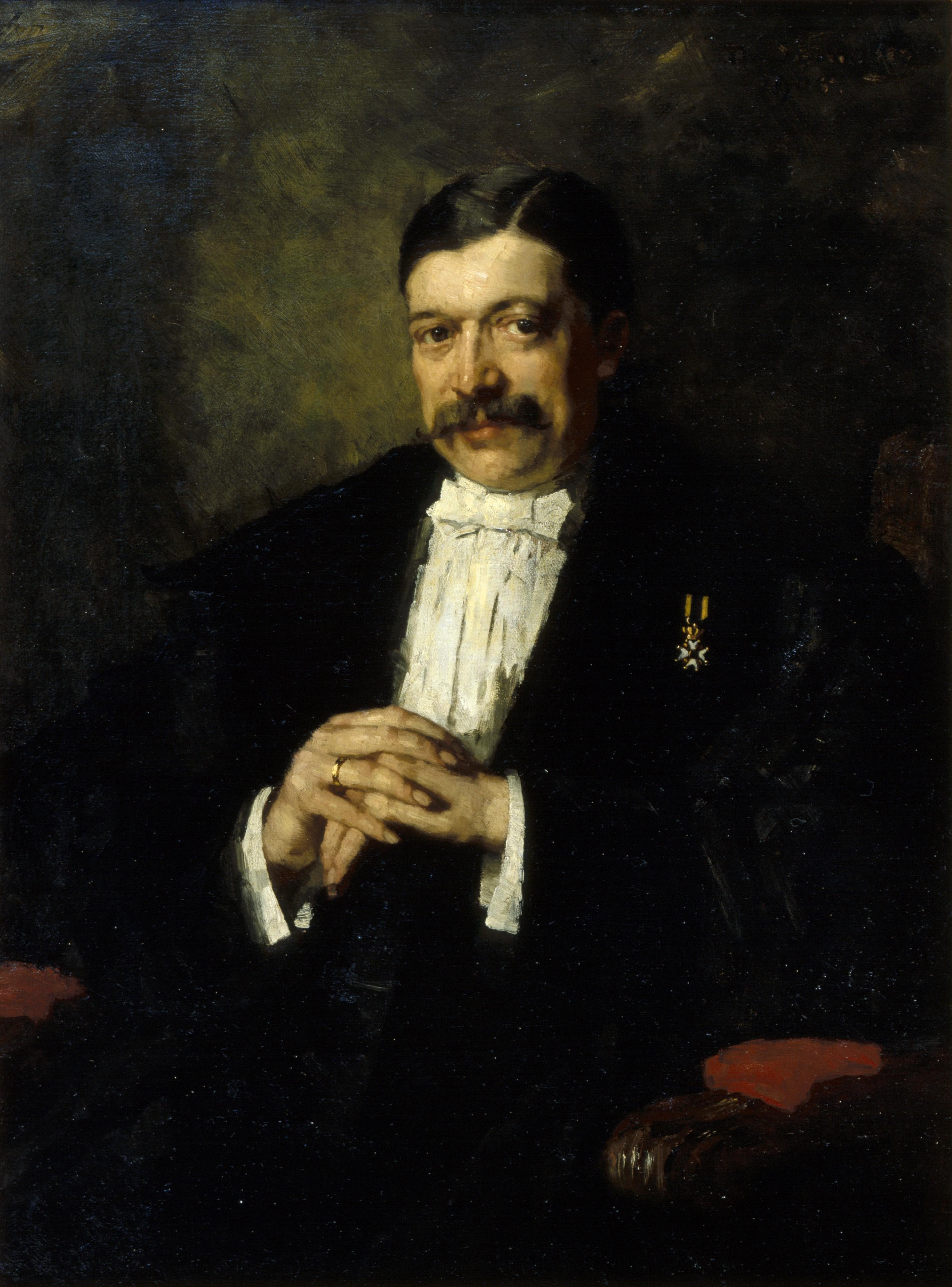 Pieter Klazes Pel (1852-1919). Painting by Isaac Israëls (1865-1934)